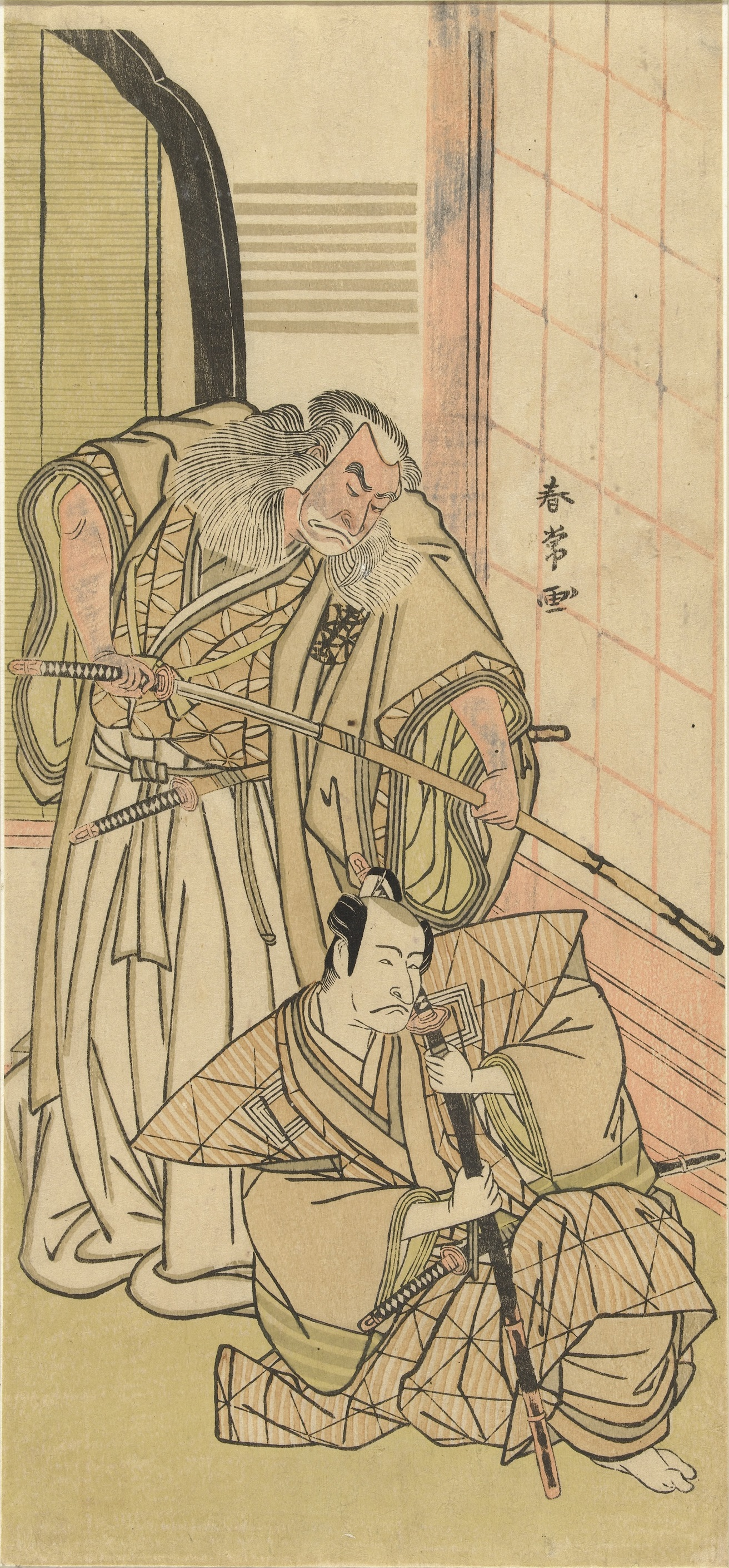 The actor Nakamura Nakazo I as an elderly man with gray hair, drawing his sword over the head of actor Ichikawa Danjūrō V, who is sitting, holding his sword with both hands.